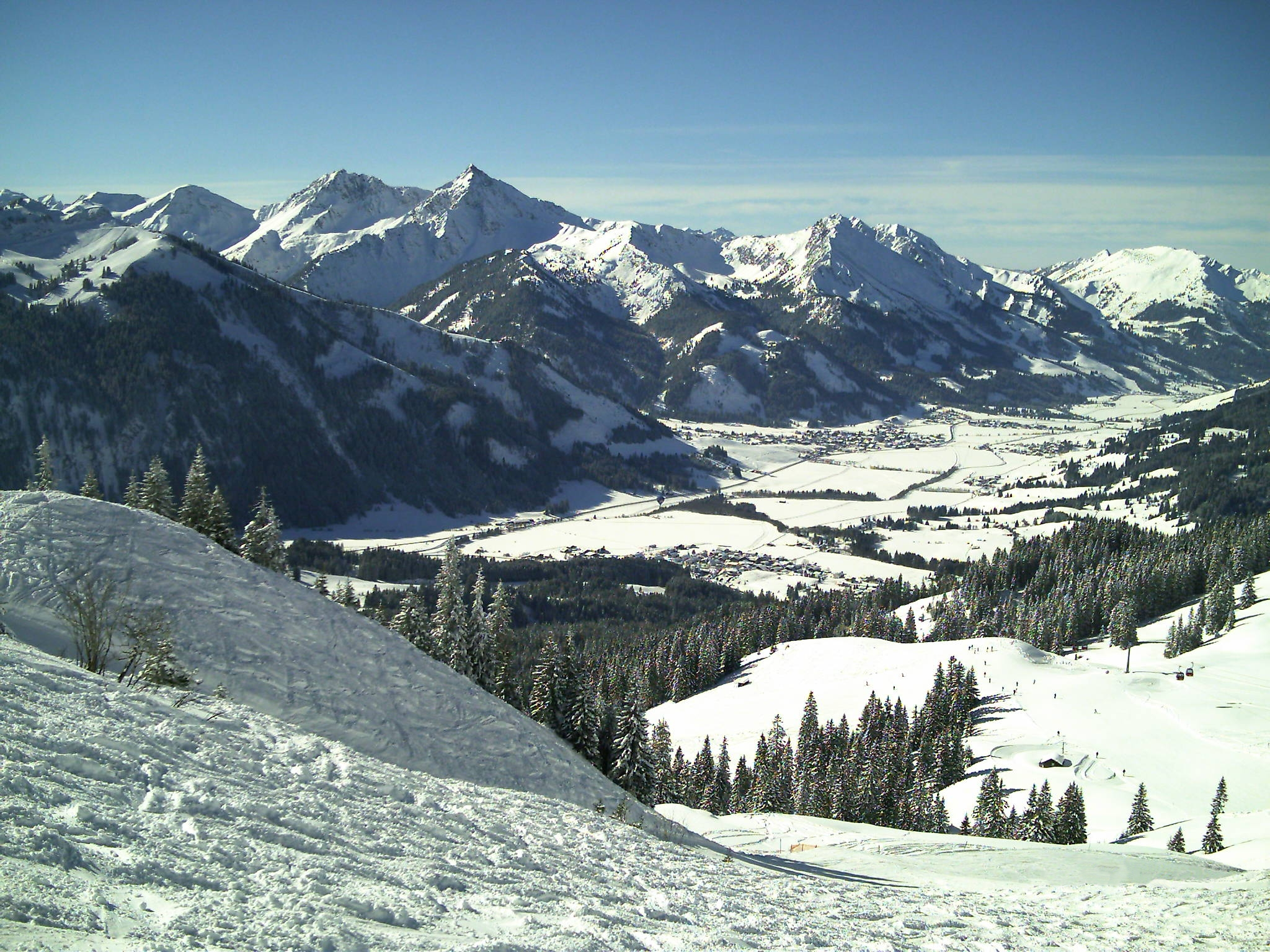 View from skiing area Füssener Jöchle to southwest down the Tannheimer Valley with Grän (1138 m) and Tannheim (1097 m)). In the background mountains of the Vilsalpsee Range of Allgäu Alps, especially Neunerköpfle (1864 m), Knappenkopf (2071 m), Kugelhorn (2126 m), Rauhhorn (2241 m), Gaishorn (2247 m), Rohnenspitze (1990 m), nearly hidden Ponten (2045 m), Bscheißer (2000 m), Iseler (1876 m) and Kühgundkopf (1907 m).